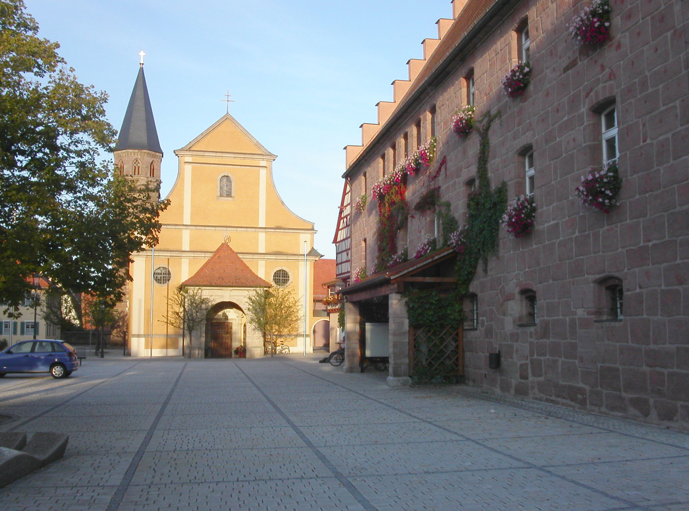 Heideck, Middle Franconia, Bavaria, Germany